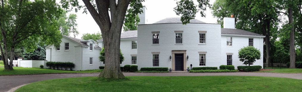 One time home of Robert Hudson Tannahill in Grosse Pointe Farms, Michigan (designed by Hugh Tallman Keyes)